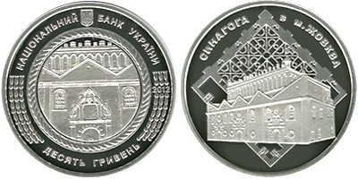 Obverse and Reverse of Zhovkva Synagogue Commemorative Coin issued in November 2012. The coin is dedicated to a monument of the Judaic sacral architecture and the defensive works, i.e. the Zhovkva Synagogue built in 1692 in the style of Renaissance.